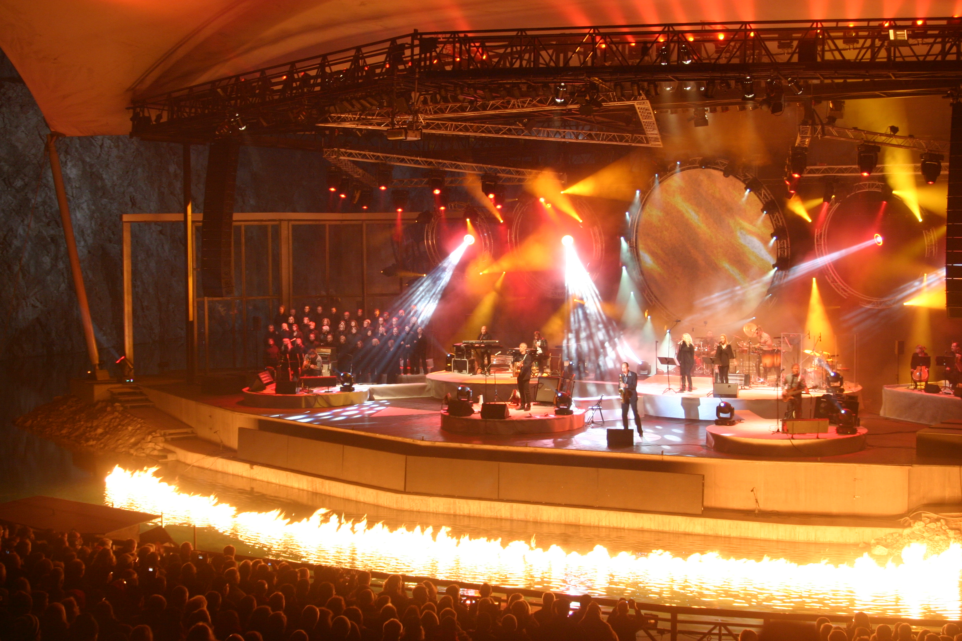 The Swedish Pink Floyd tribut band "P-Floyd" in concert, Dalhalla.